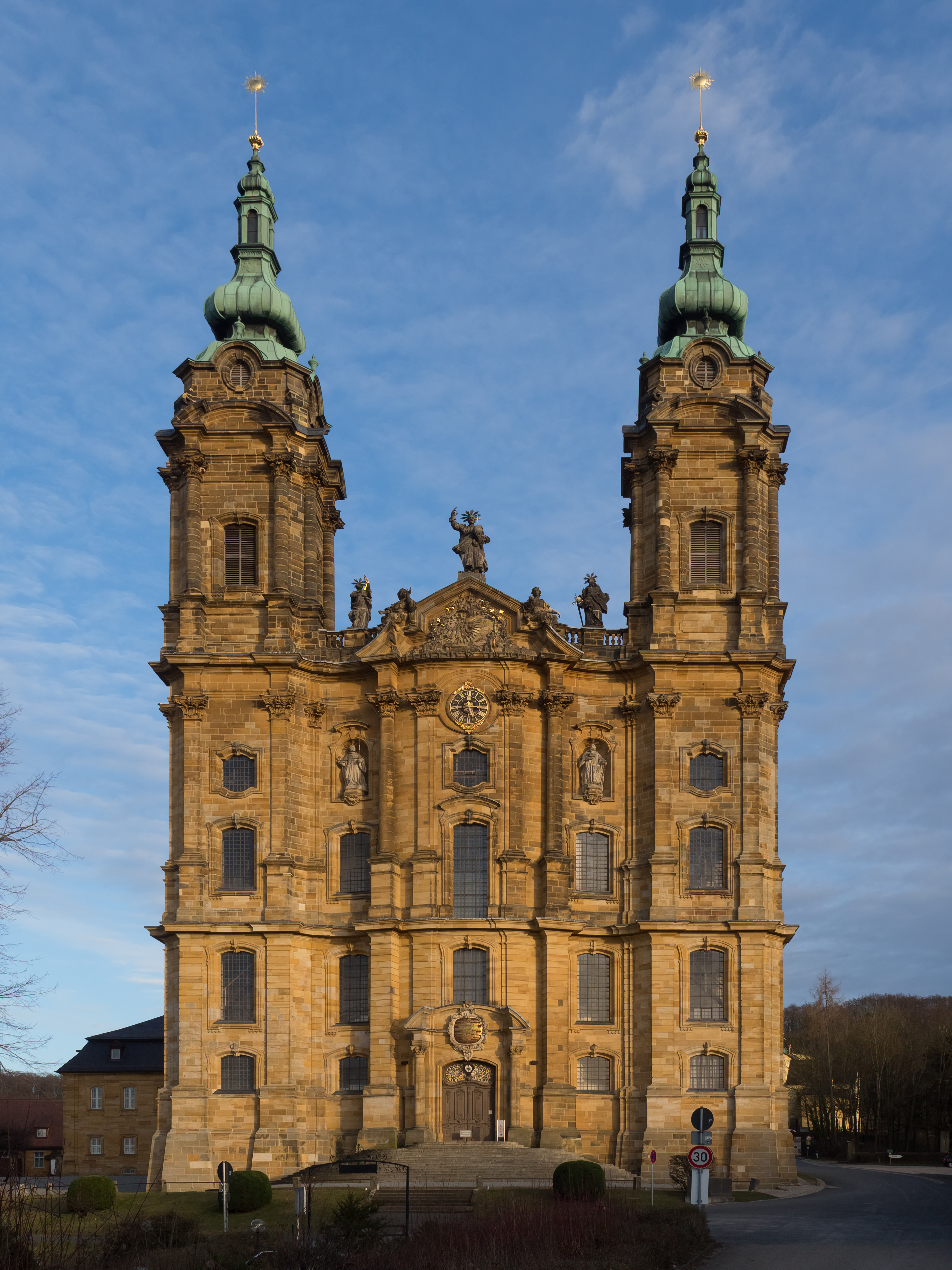 Facade of the Basilica Vierzehnheiligen